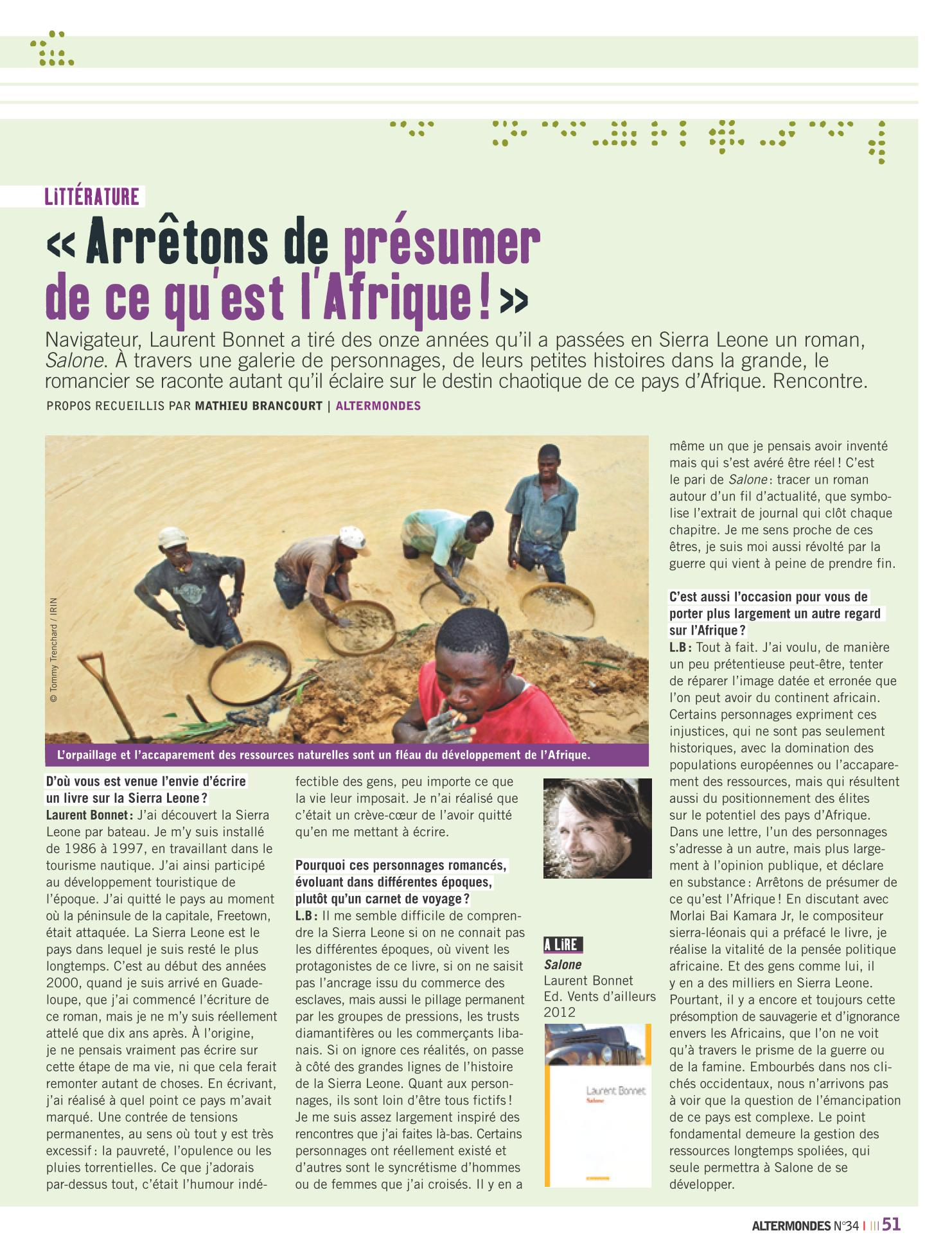 Article from magazine Alter Monde